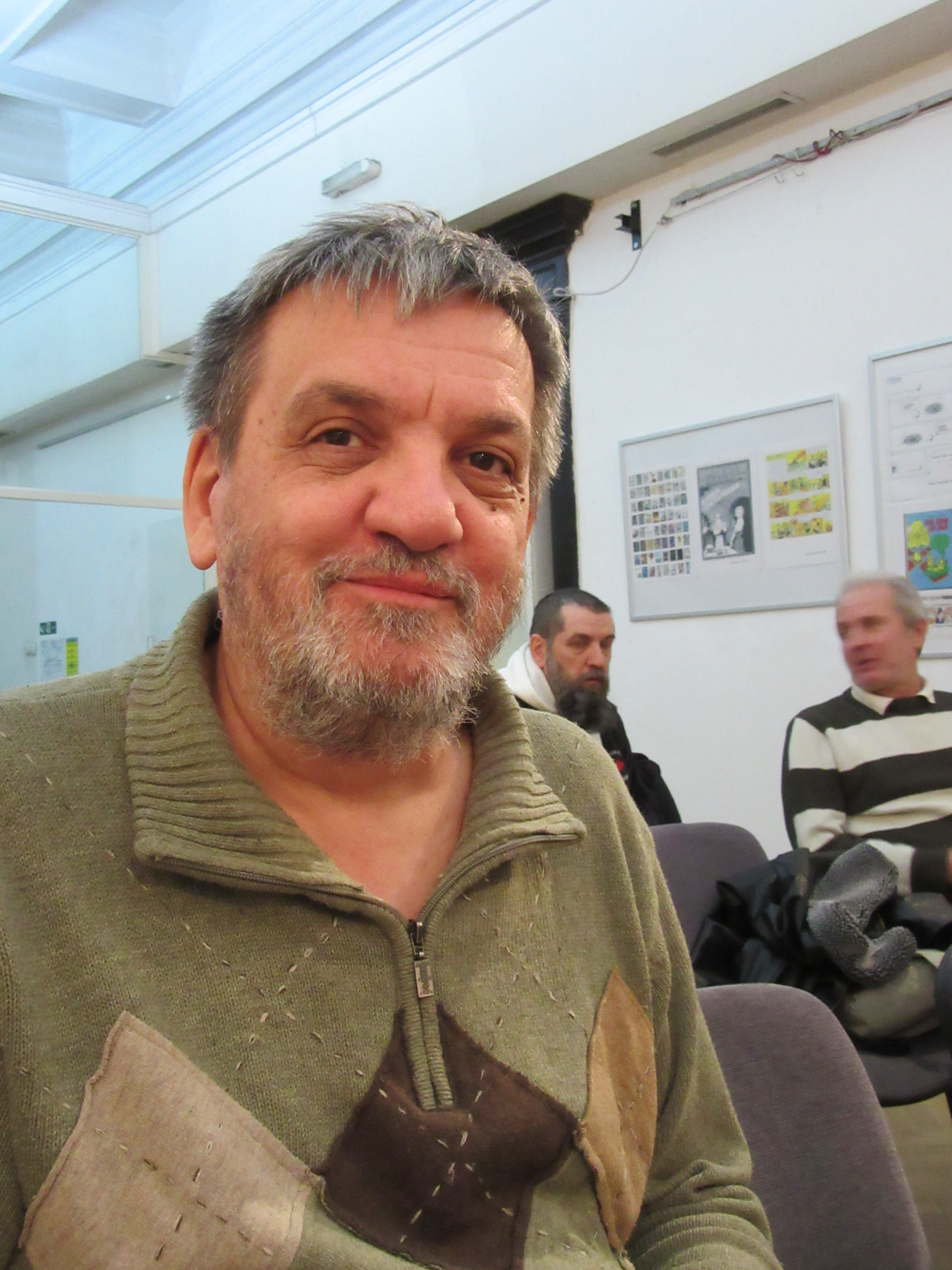 Slavic and Serbian fantasy cycle, University library, Belgrade, Serbia, Boban Knežević, writer and publisher. Srpski (latinica): Ciklus "Slovenska i srpska fantastika", Univerzitetska biblioteka, Beograd, Srbija, Boban Knežević, pisac i izdavač.